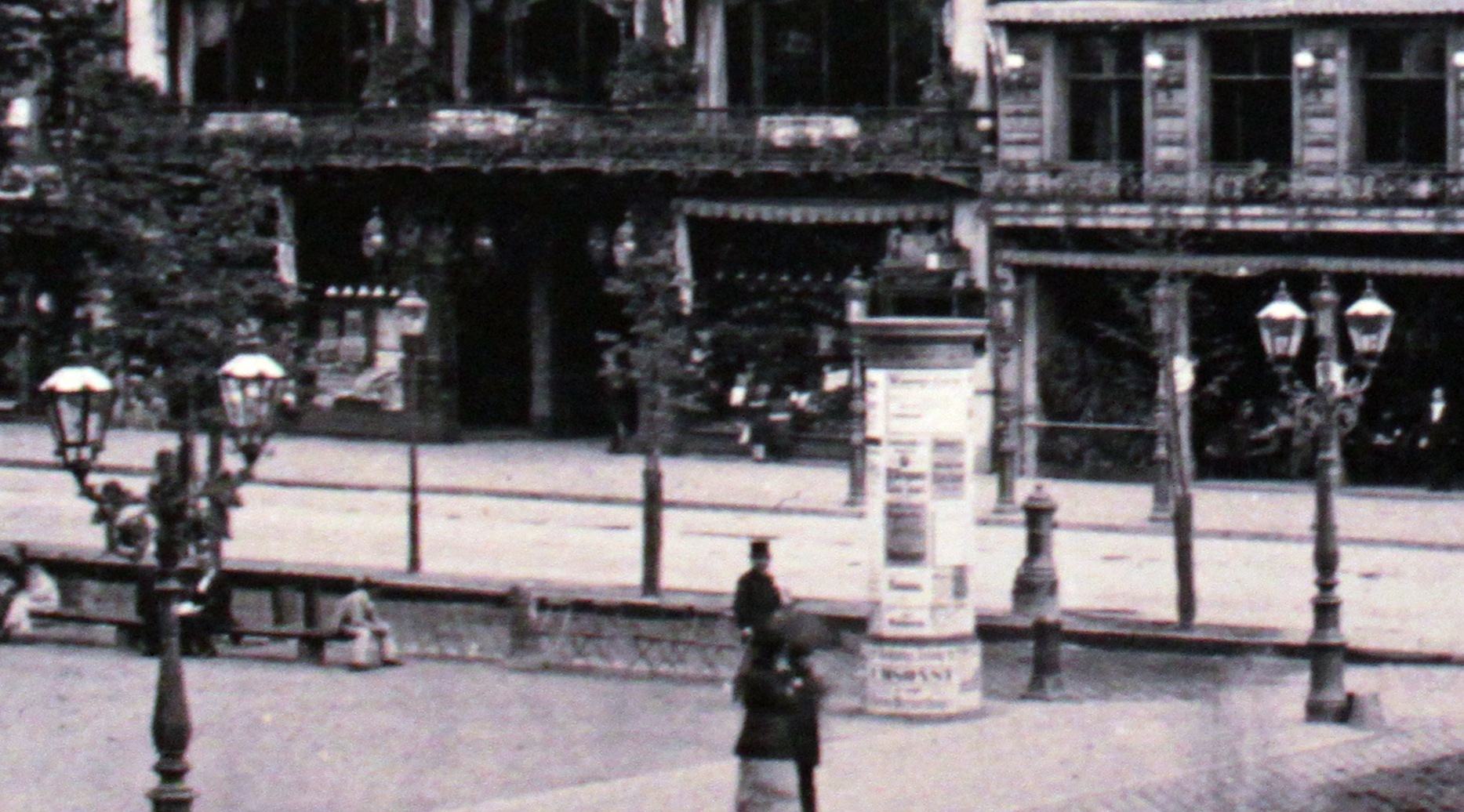 Berlin: Cafe Bauer and Restaurant Kaiserhallen